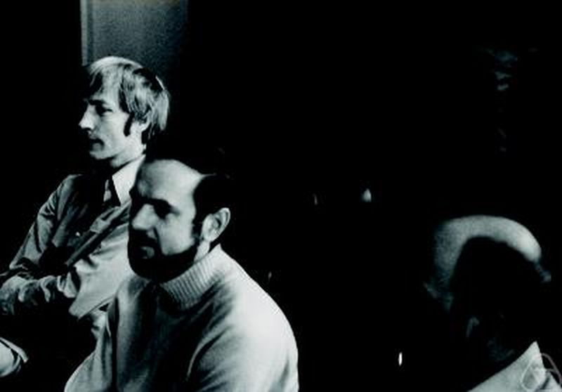 From left: Olav Kallenberg, J. Lembcke, Christian Grillenberger, picture by Konrad Jacobs